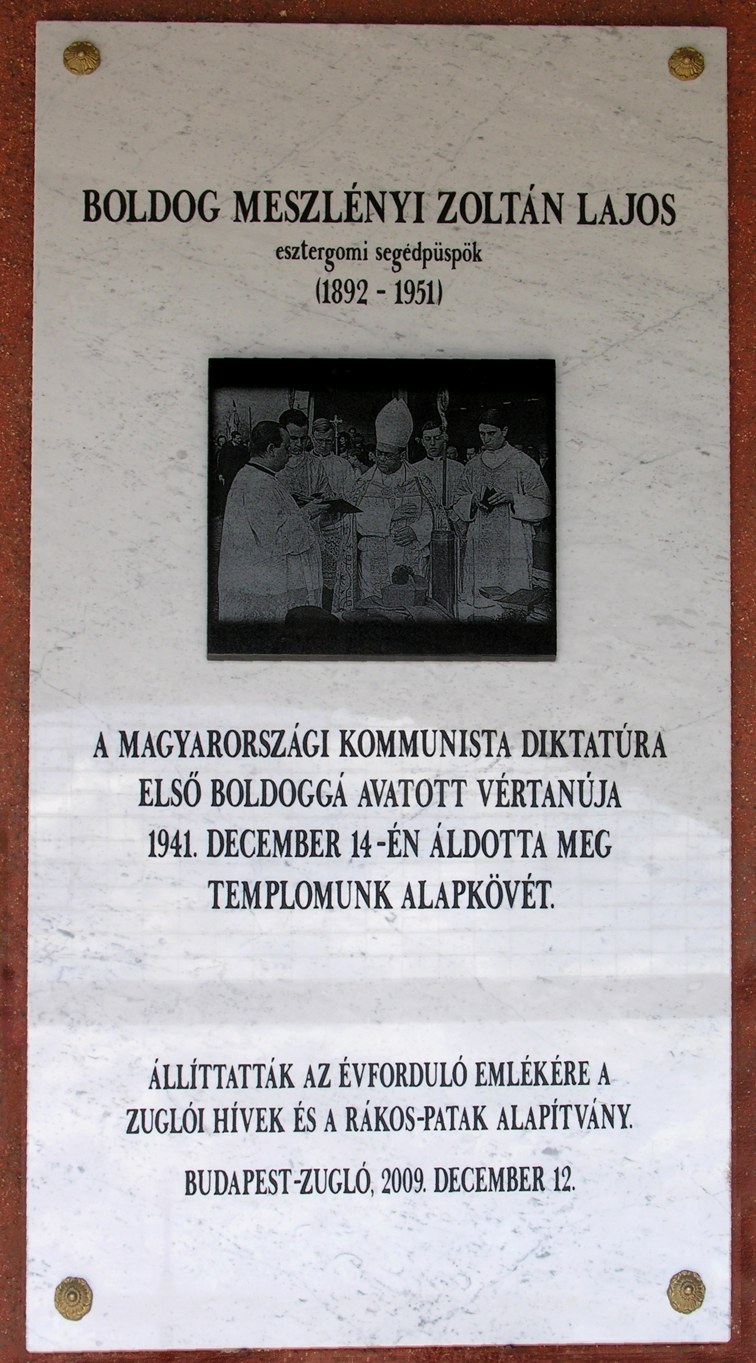 Commemorative plaque of Zoltán Meszlényi, Budapest District XIV, Bosnyák Square 6/a